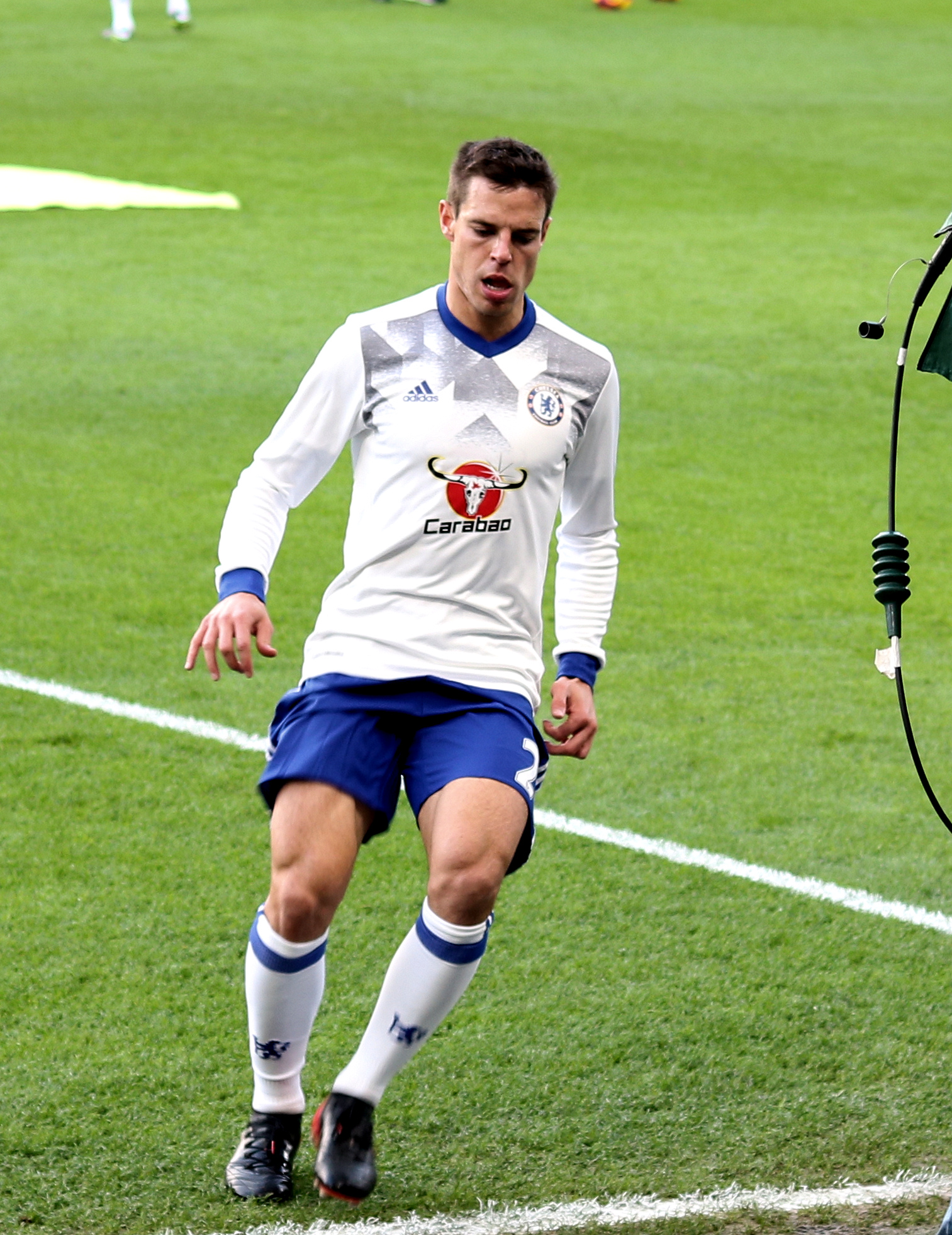 César Azpilicueta, Stamford Bridge December 2016